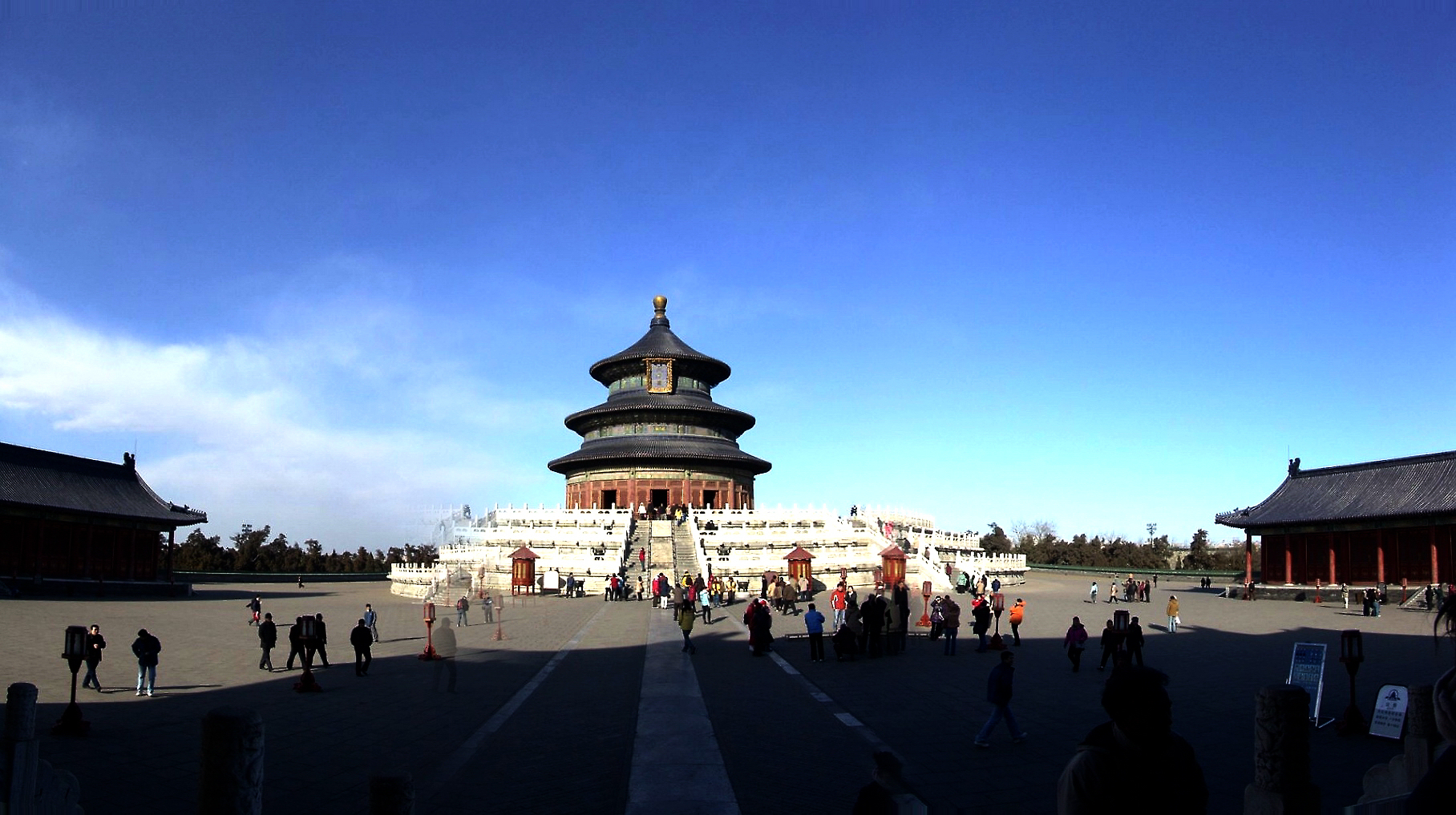 Temple of Heaven - Courtyard: View bigger version.. click on VIEW ALL SIZES on left..